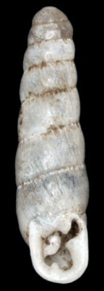 Photo of an apertural view of the shell of Huttonella bicolor. The height of the shell is 7.16 mm.